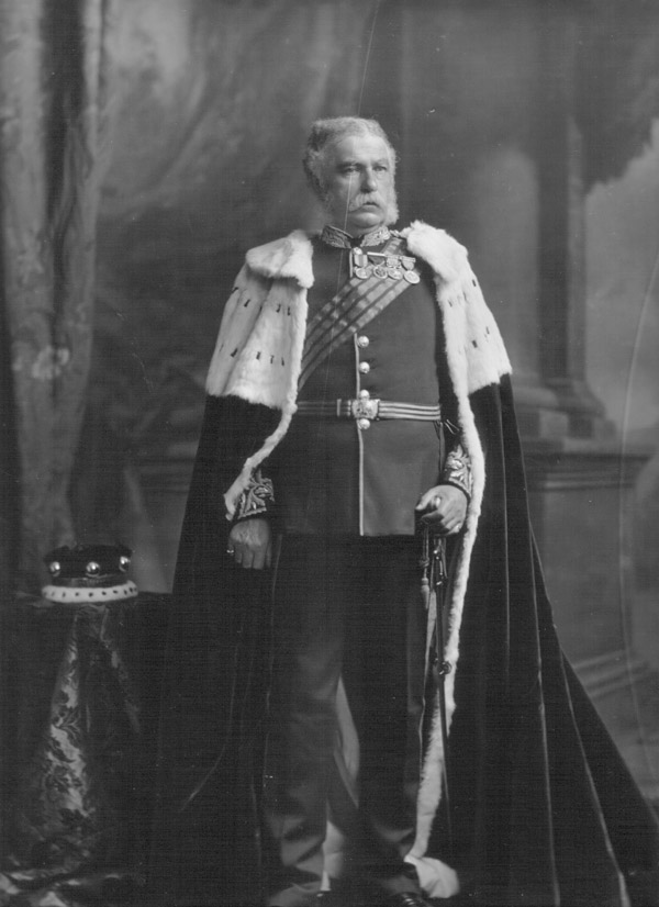 Josslyn Francis Pennington, 5th Baron Muncaster (1834-1917). Photographed on 9 December 1902. Costume: Peer's robes over Dress Uniform, Lord Lieutenant (English County) [old pattern]. Orders, Decorations & Medals: Queen Victoria Jubilee Medal; Volunteer Officer's Decoration; Crimea Medal; Turkish Crimea Medal 1855 (?)